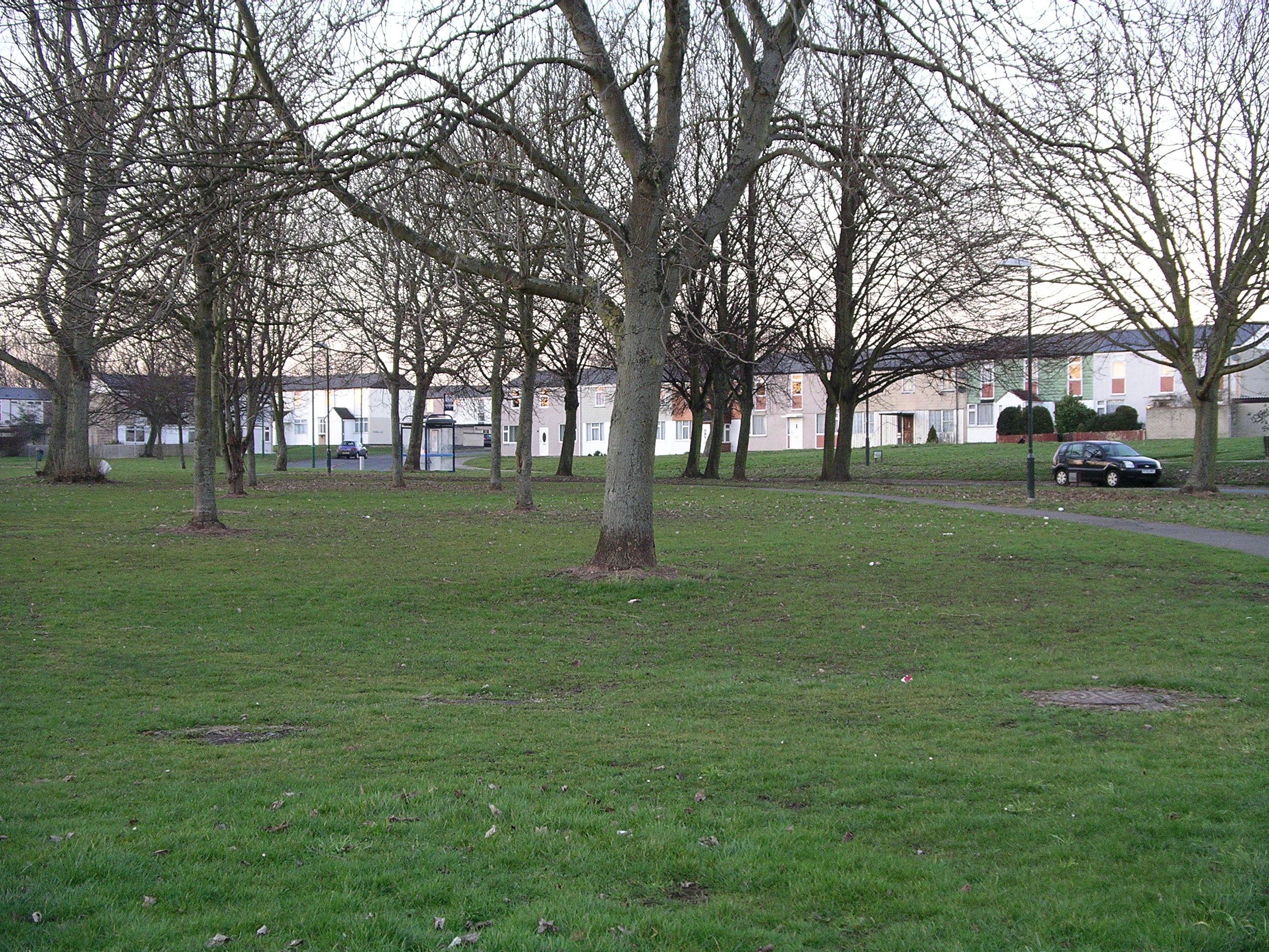 Bredon Avenue, Earnsford Grange, Coventry, England.